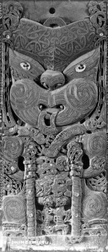 Tama-te-kapua, ancestor of Te Arawa, depicted in a carving at Tamatekapua meeting house in Ohinemutu, Rotorua, circa 1880. Tama-te-kapua is holding a pair of stilts, which he used to steal breadfruit from a tree belonging to Uenuku, in the mythical homeland, Hawaiki. (E.G. Schwimmer in Te Ao Hou, No. 28 (September 1959) p48, says: The modern carver, just like his forebears, aims to tell a tribal story in striking pictures. Some of these pictures are already traditional, like Tama-te-kapua, who is always shown on stilts. The carver who first thought of this picture wanted to show the old chief in one of his most characteristic activities: he was known as a very ingenious thief and it was said that he would never leave footprints behind; so he was represented on one of his thieving expeditions walking on stilts to avoid recognition. To-day, every carver who wishes to know Tama-te-kapua shows the stilts: they have become entirely traditional and in fact the stilts are the feature by which Tama-te-kapua may be recognised in any Arawa meeting house.)